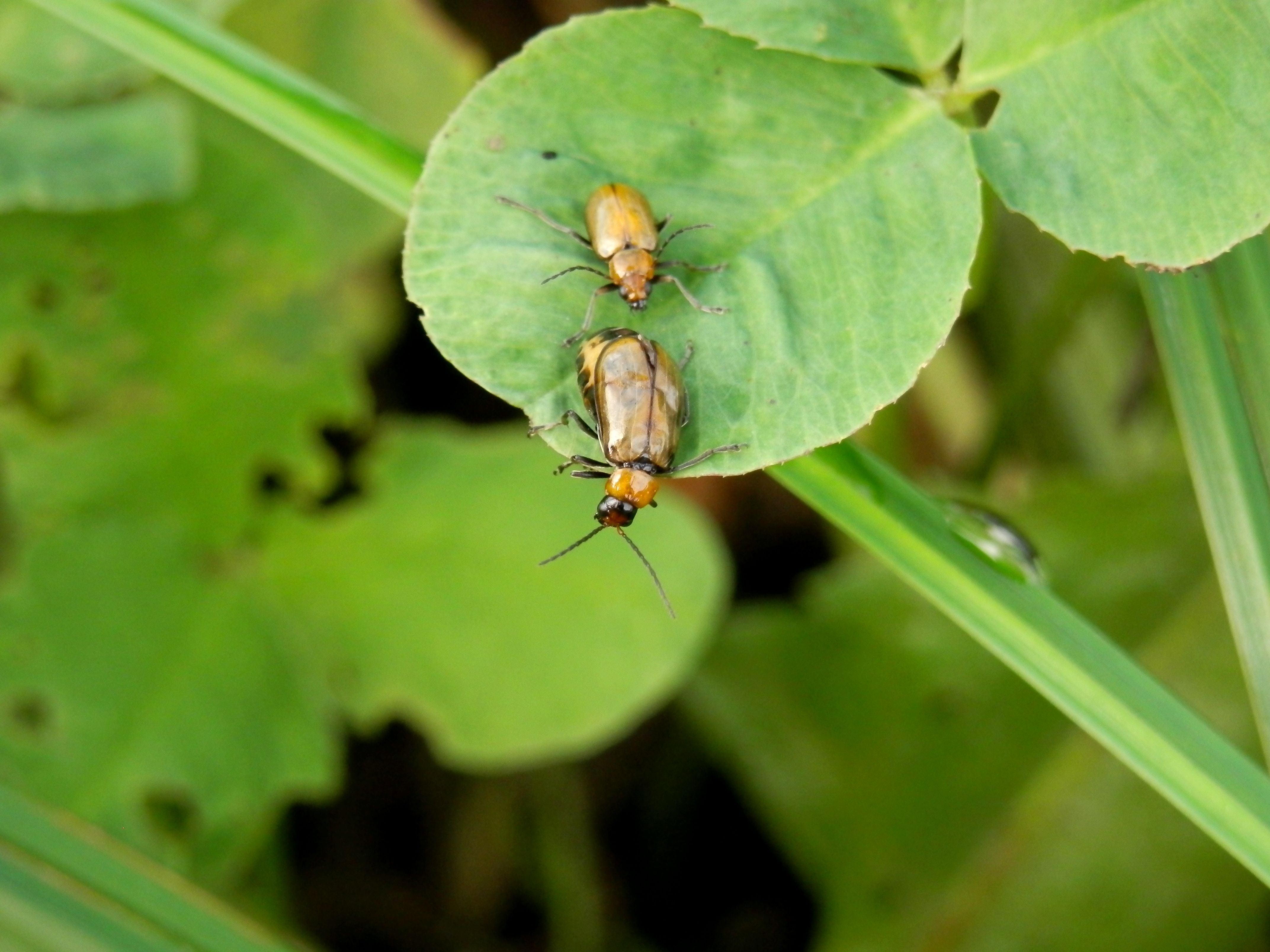 Aulacophora femoralis (urihamushi) attempting to mate in Eniwa, Hokkaido